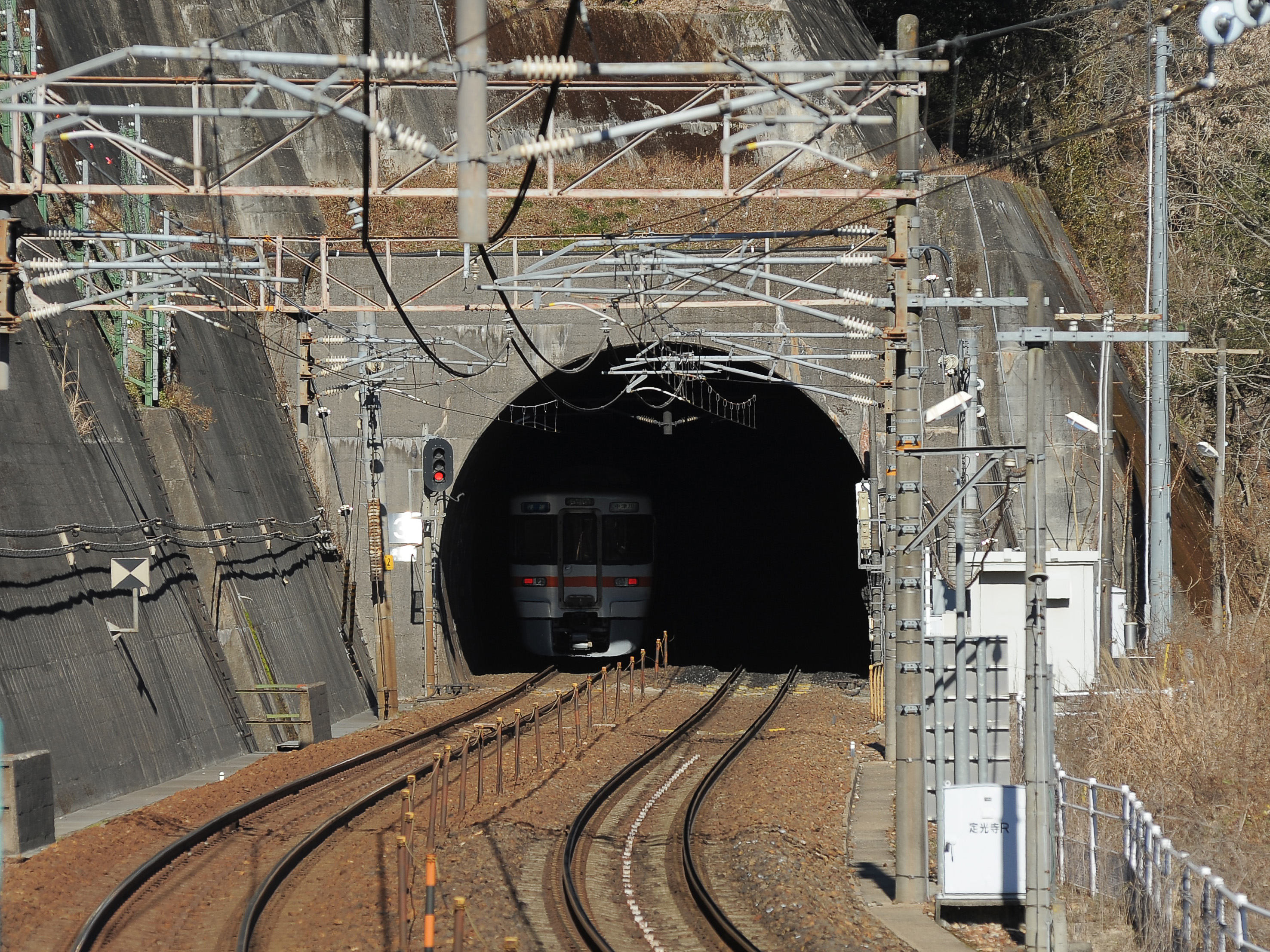 Aigi tunnel, Chuo main line, JR Central, Kasugai, Aichi